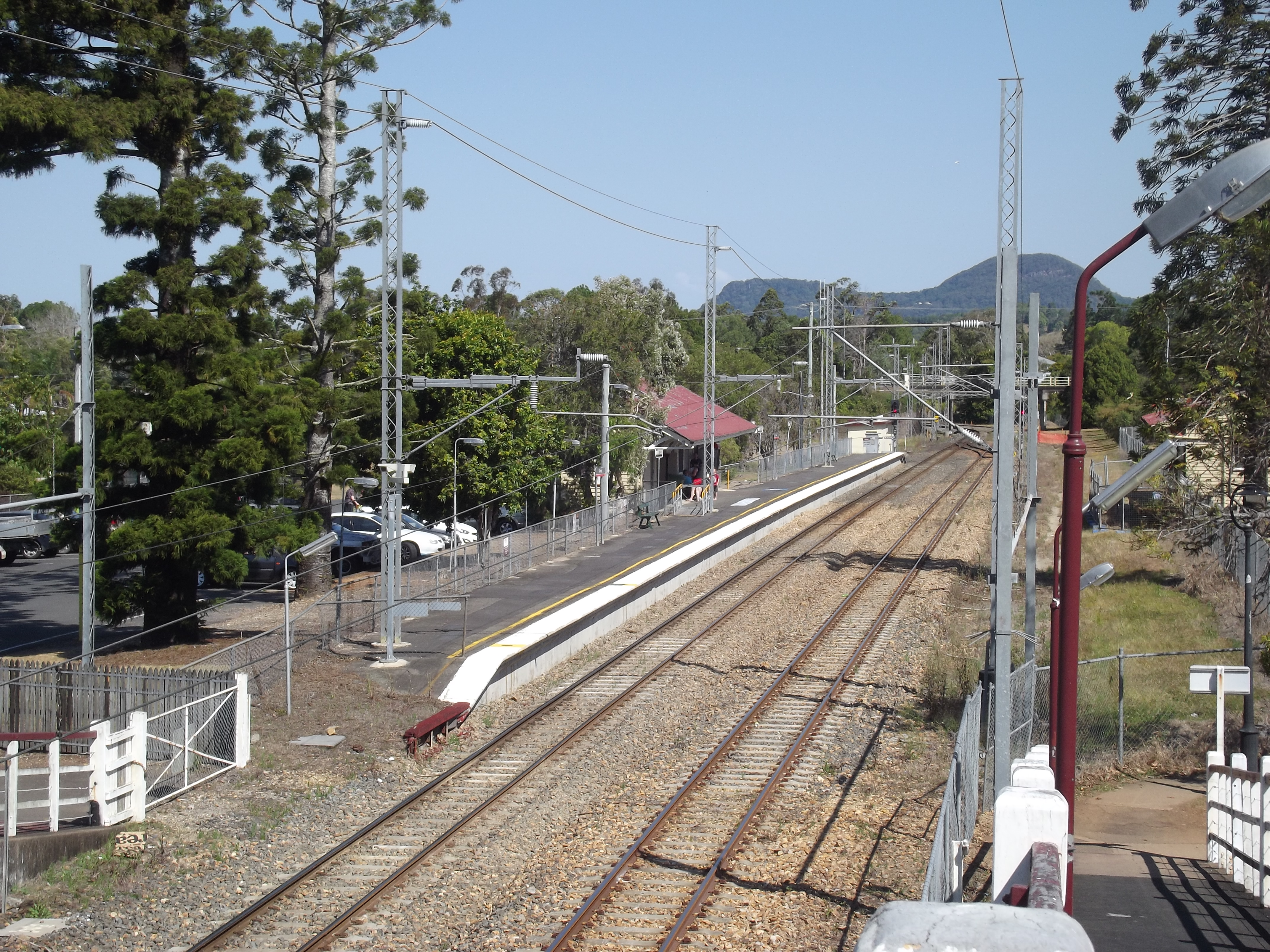 Cooroy station, on the Nambour/Gympie North line.